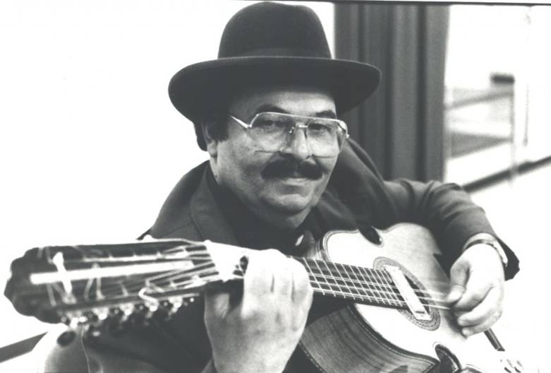 The King of Cuatro, Victor Guillermo Toro's (RIP) own photo collection